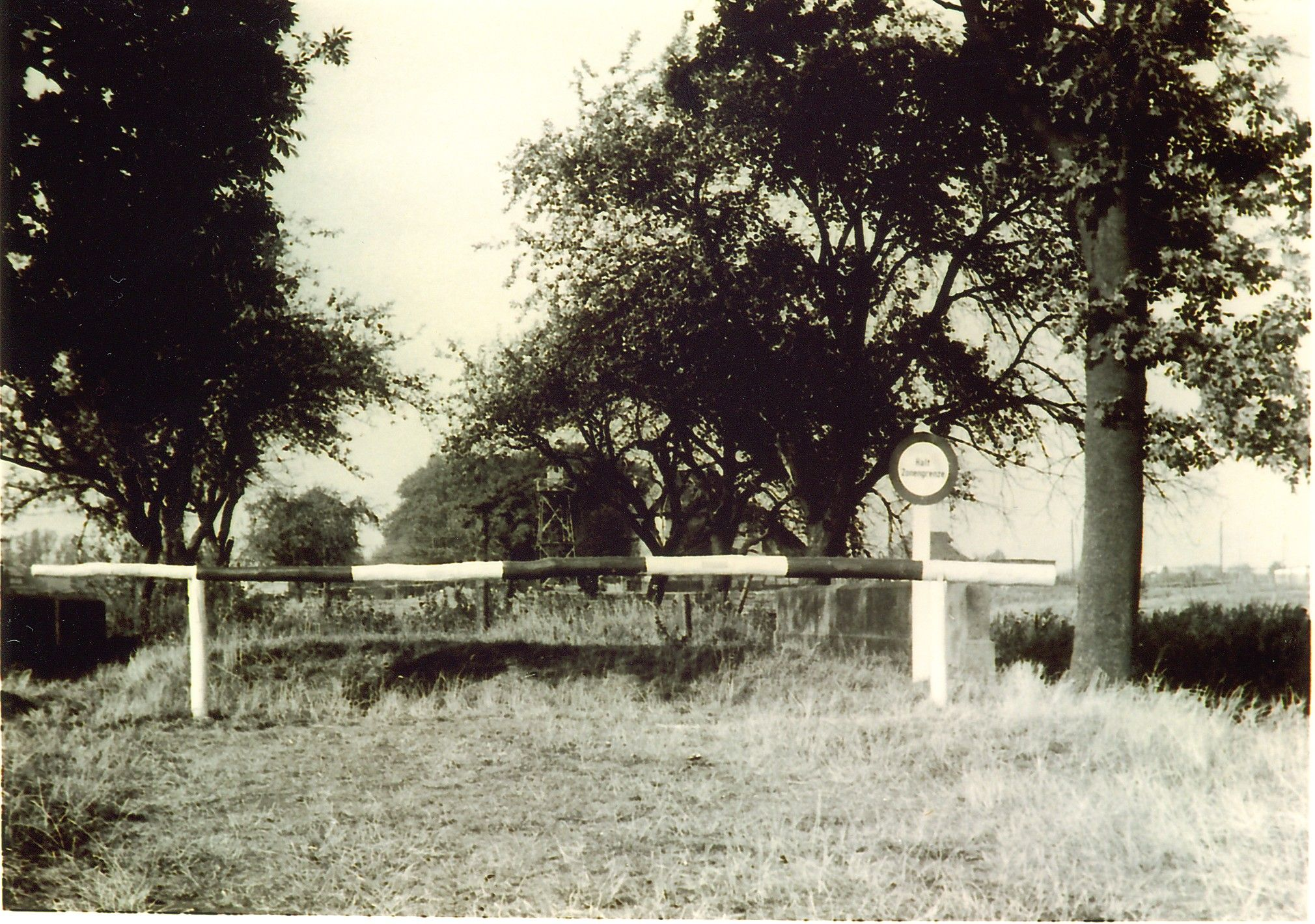 Inner German border. Road connecting Zasenbeck and Hanum. Ohre bridge with border barrier and fence